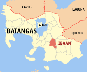 Map of Batangas showing the location of Ibaan